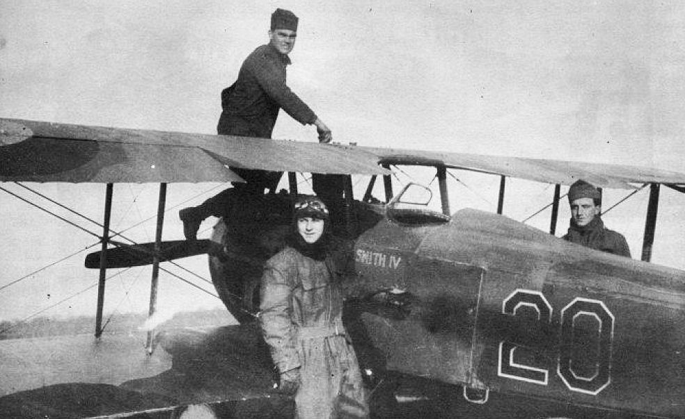 22d Aero Squadron Captain Arthur Raymond Brooks with his SPAD S.XIII, "Smith IV", Belrain Aerodrome, France. This aircraft is now on display at the Smithsonian National Air and Space Museum